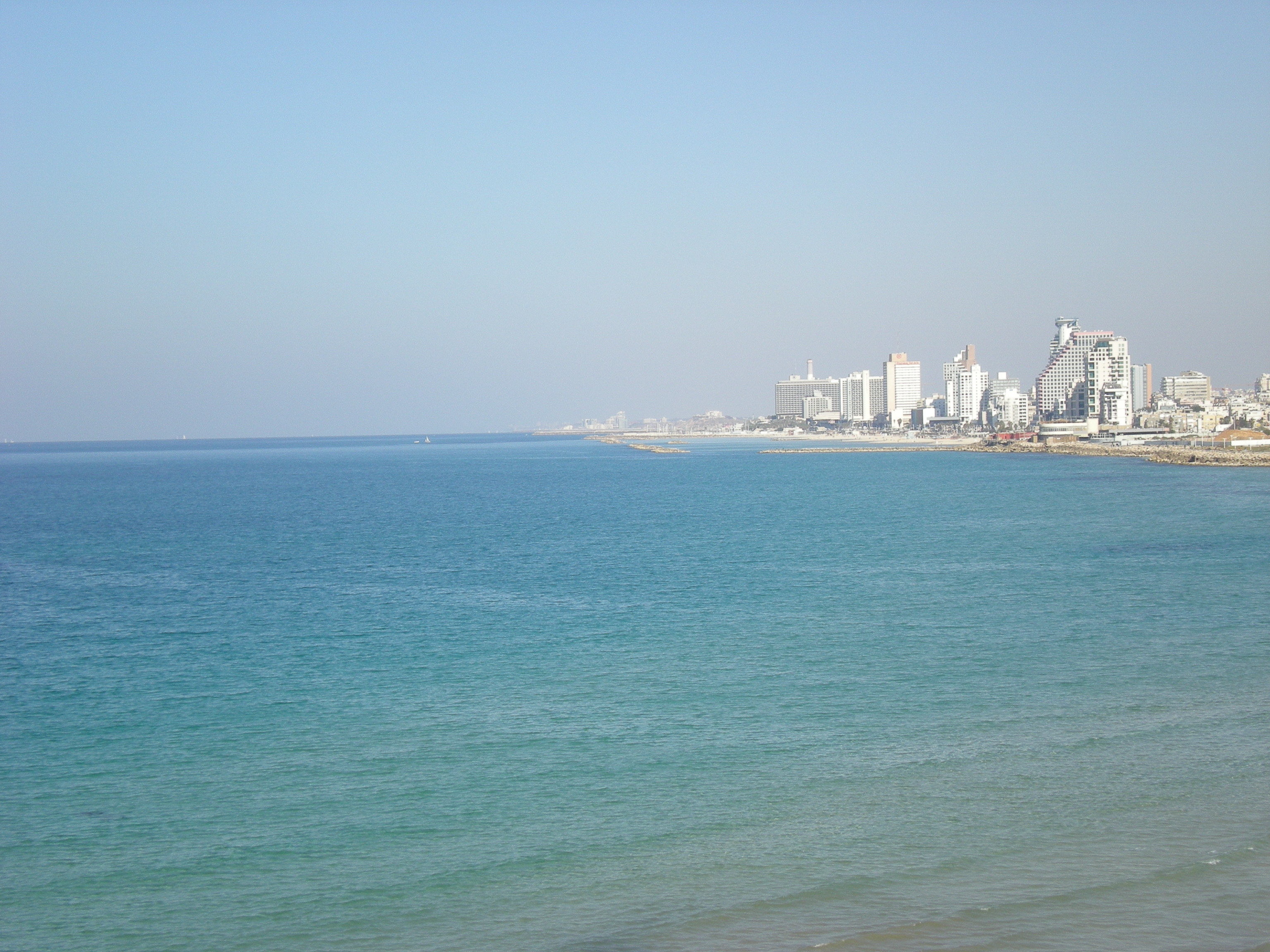 A view of the Tel Aviv coastline